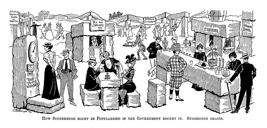 A cartoon from Punch Magazine 30 August, 1899, depicting what will happen if Stonehenge were taken over by the British government and National Trust.